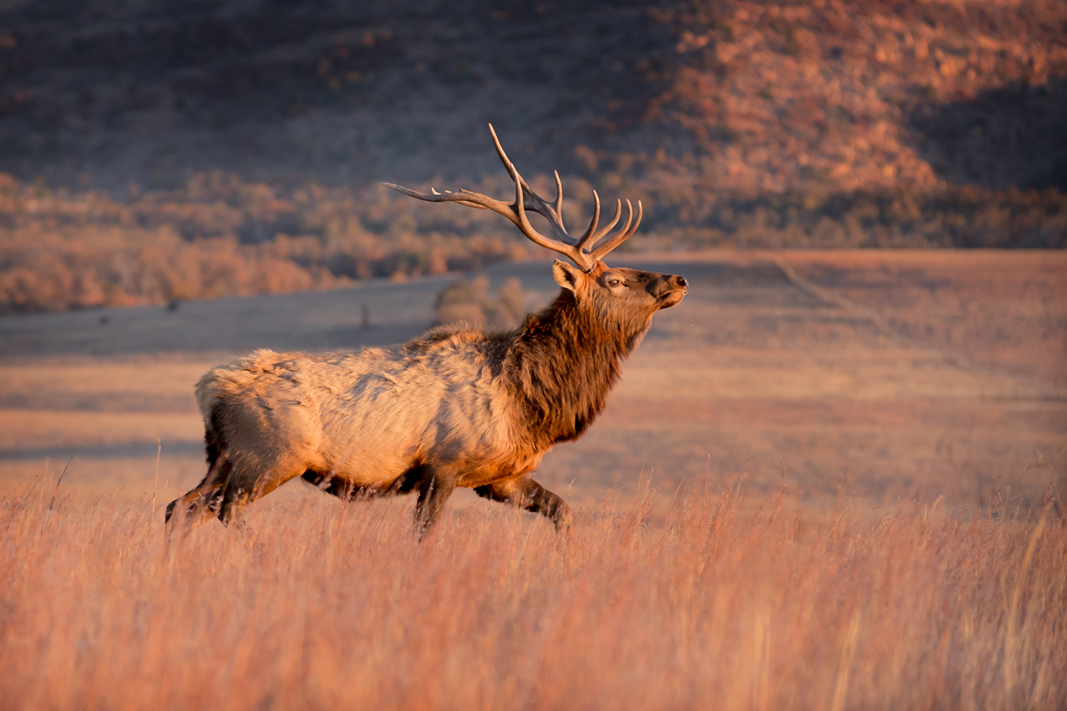 Bull Elk